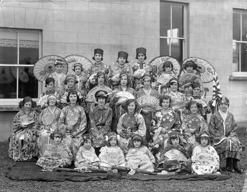 Pupils of Our Lady of Lourdes, Holy Faith school at Rosbercon, New Ross, Co. Wexford. We have no further details, but would imagine that this cast ensemble were taking a break from a performance of The Mikado, unless anyone can suggest another play or musical with an overwhelmingly Japanese theme.